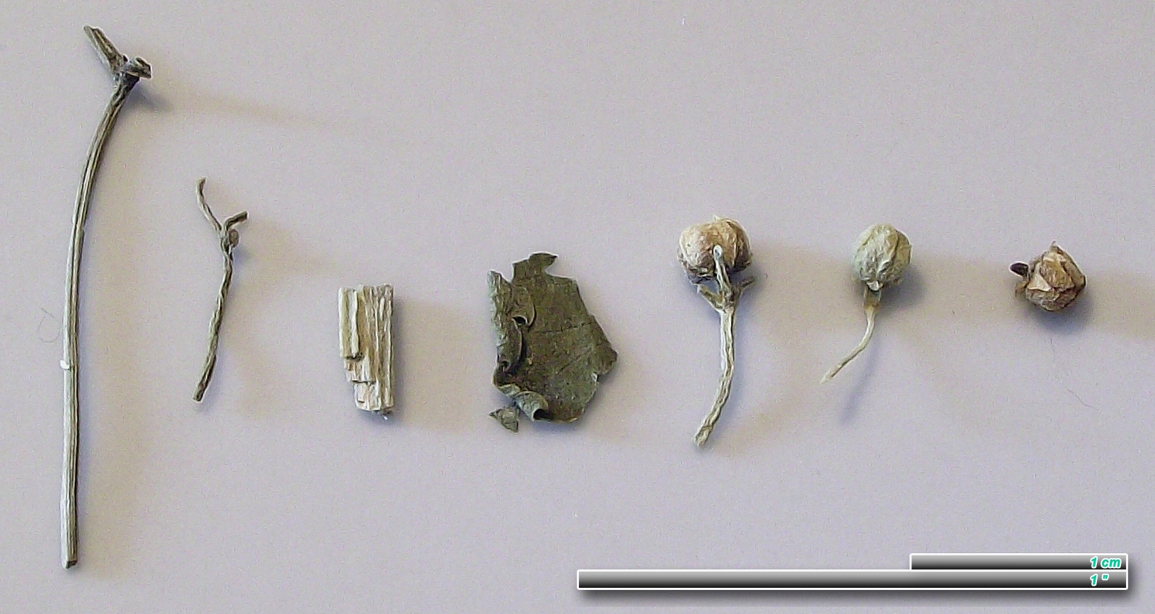 dried Sambucus nigra; Elder, Elderberry, Black Elder, European Elder, European Elderberry, European Black Elderberry, Common Elder, or Elder Bush, Flowers